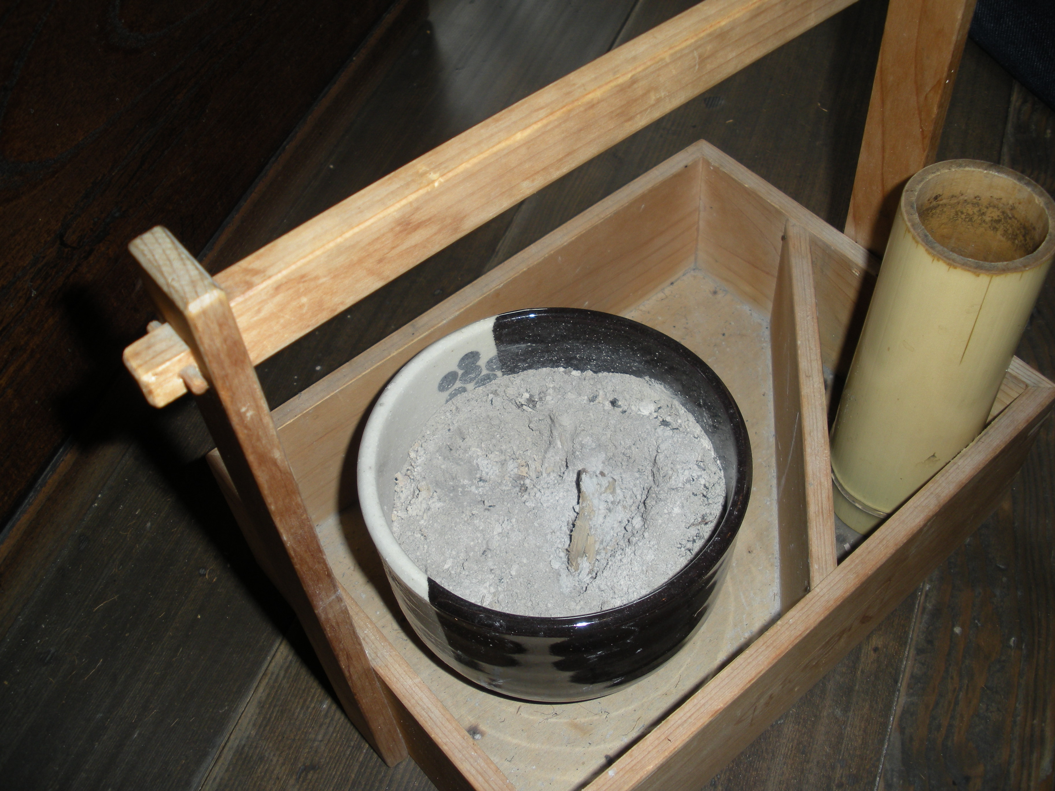 Tabakobon(Japanese Ashtrays)